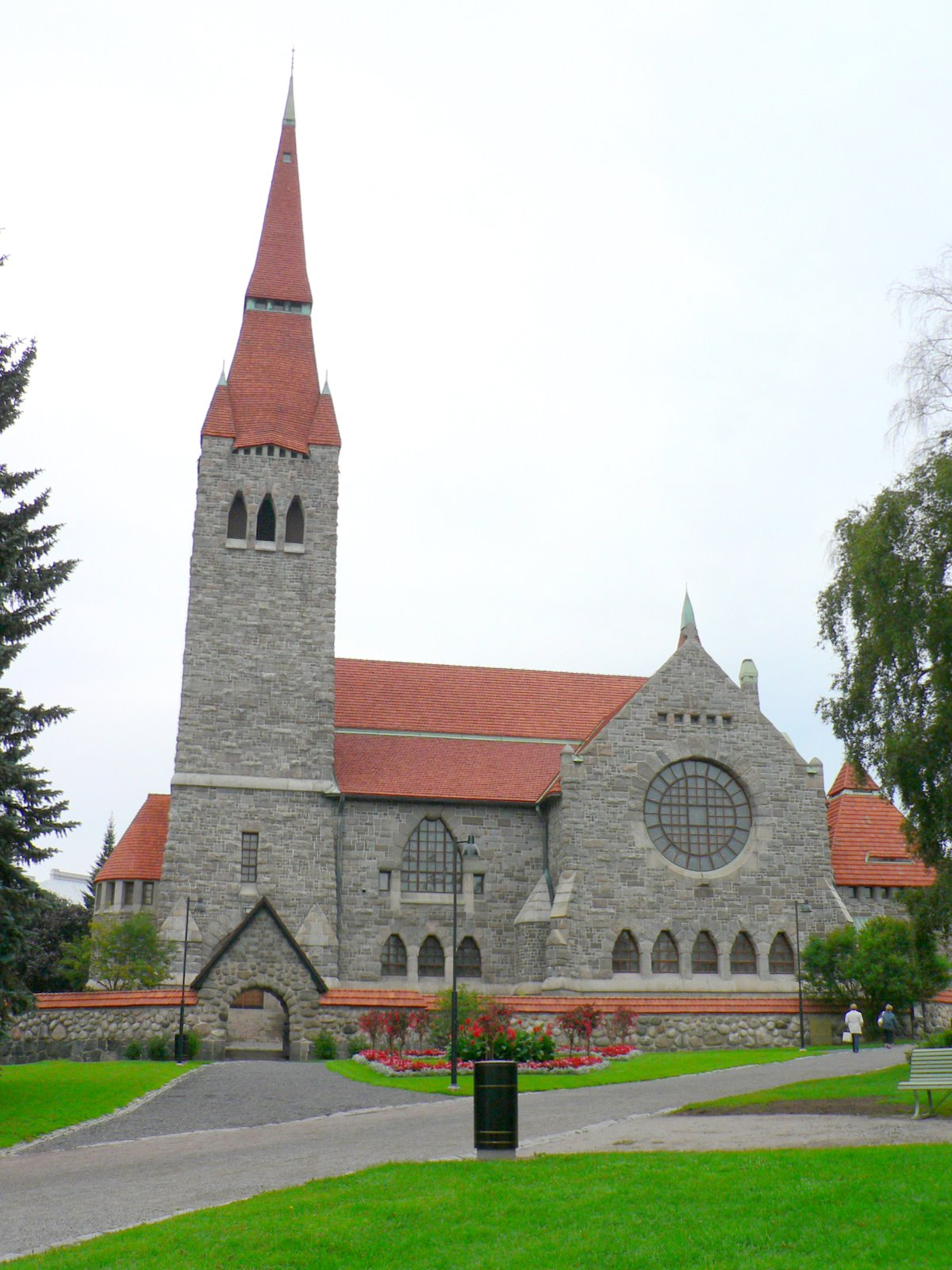 Tampere Cathedral, Tampere, Finland